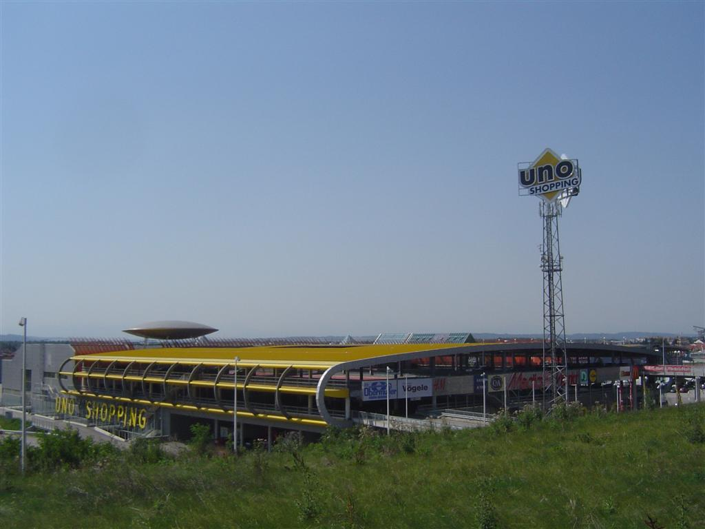 UNO Shopping parking garage and advertising tower; Leonding, Upper Austria